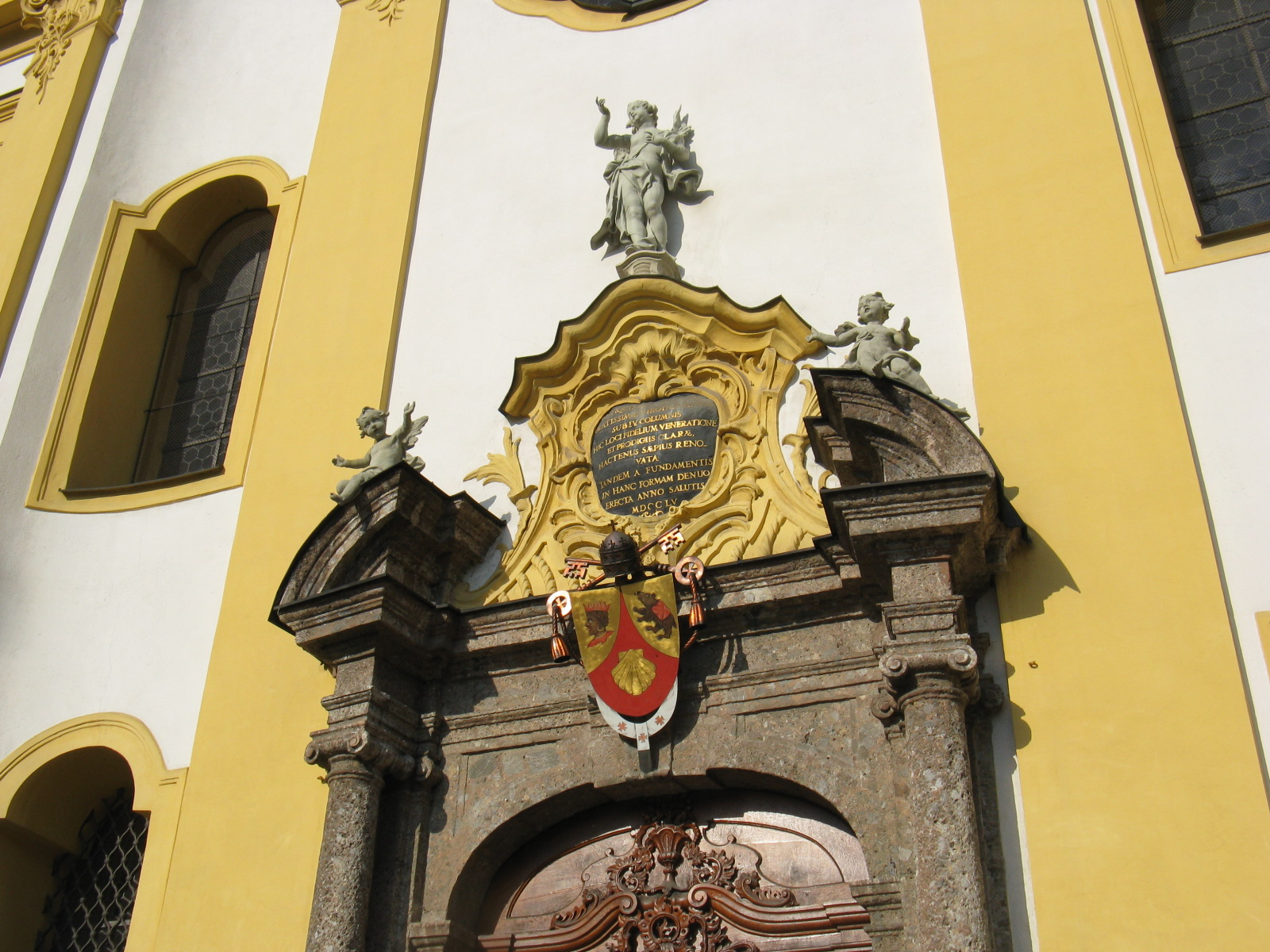 Wilten basilica, Innsbruck, Austria. Entrance with the coat of arms of Pope Benedict XVI.